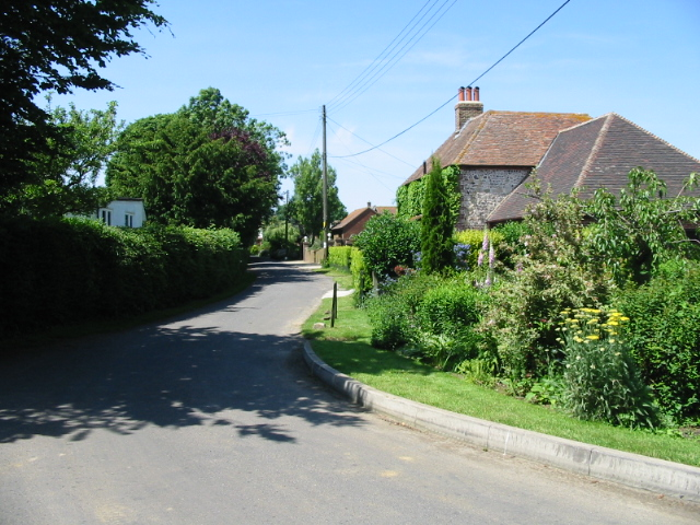 The road through Swingfield Street